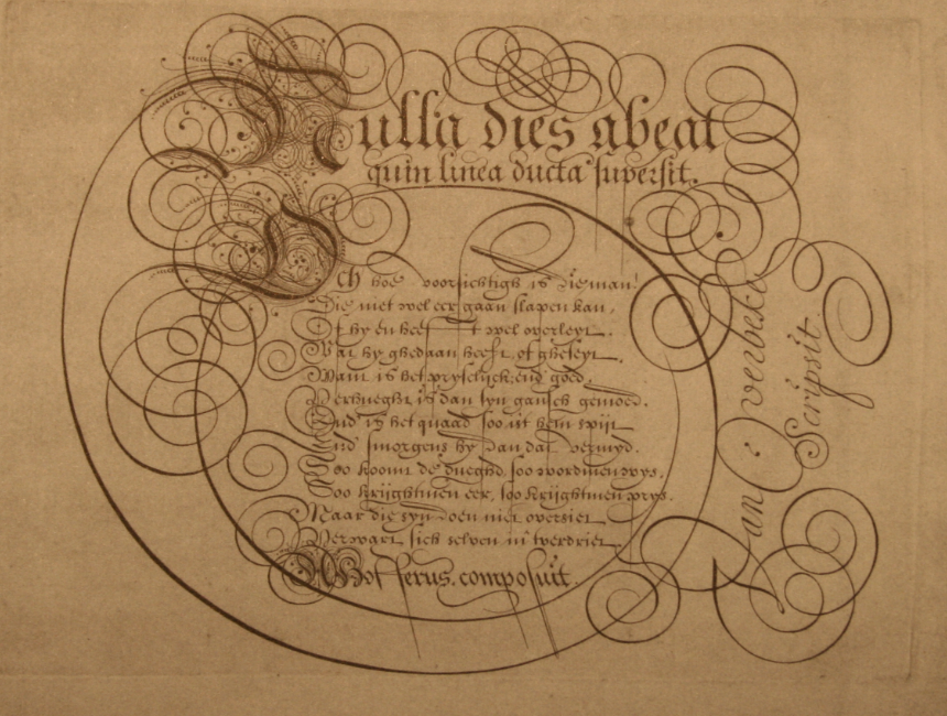 Abraham van Overbeke, a page from Samuel de Swaef's Gedichten, c. 1628